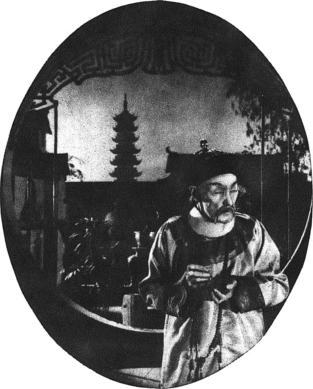 Actor Thomas Jefferson in the American drama film The Vermilion Pencil (1922).